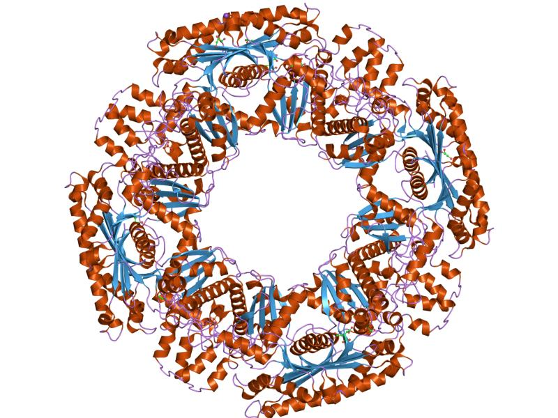 Cartoon representation of the molecular structure of protein registered with 1x9j code.